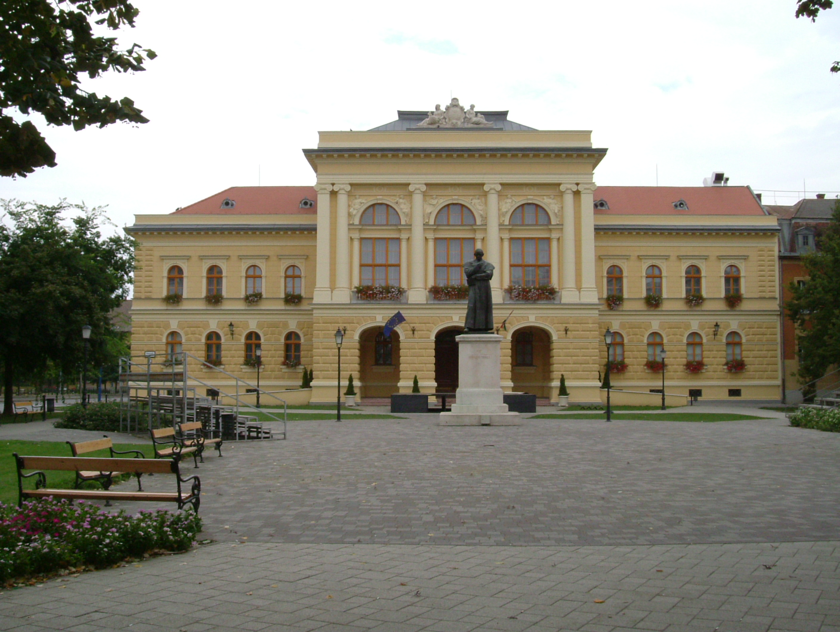 Szentes. Old County Hall